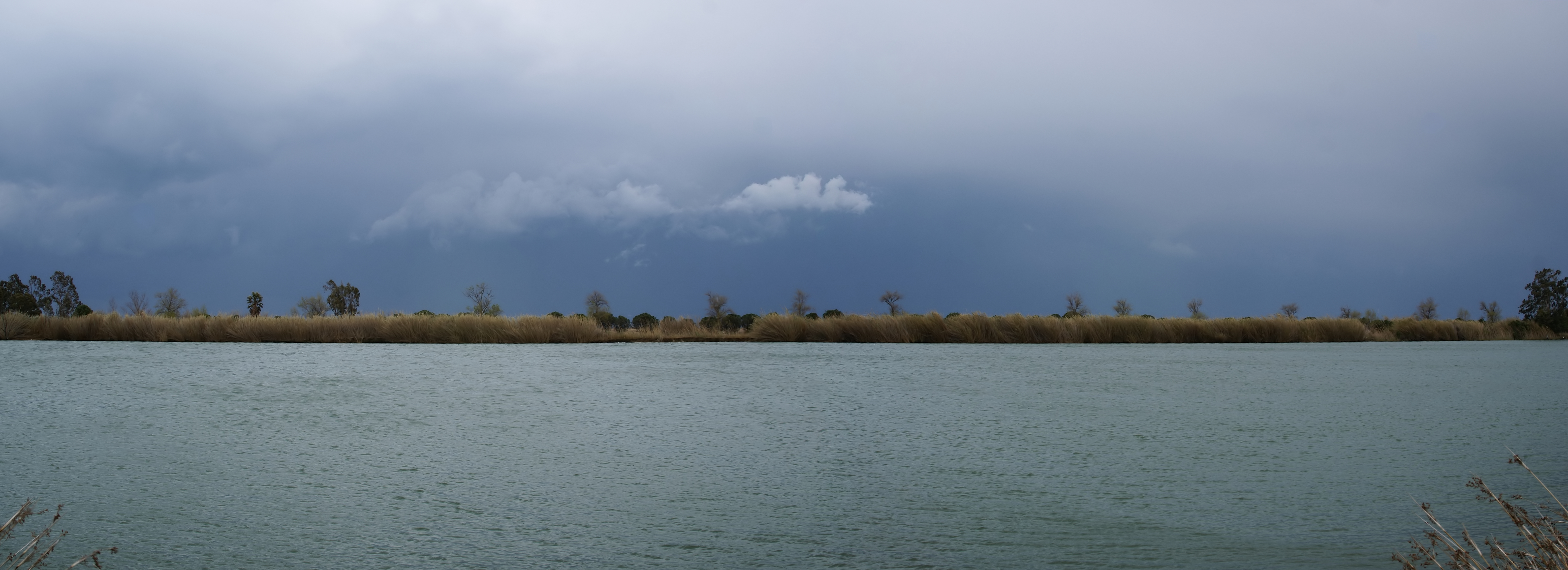 Storm brewing over the Ebro Delta, close to Urbanització Riumar, Baix Ebre, Catalonia, Spain